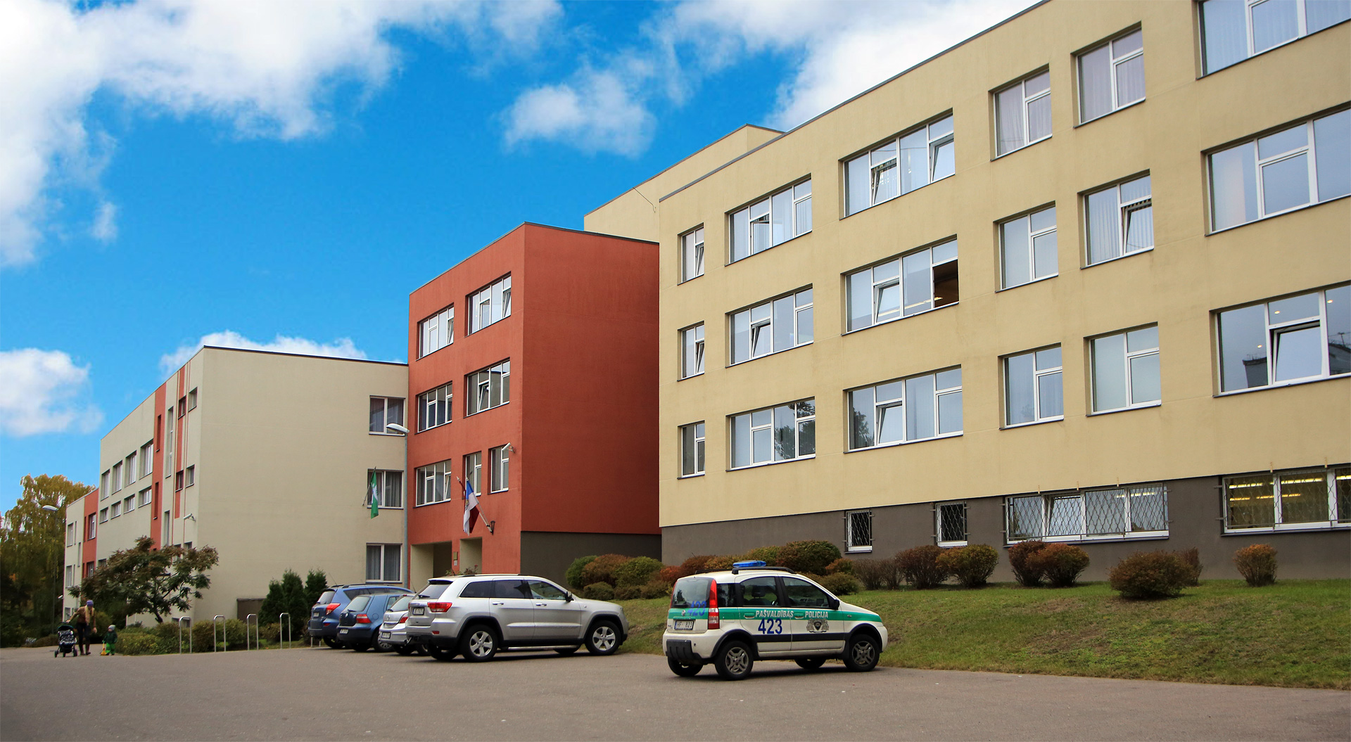 Rīgas Rīnūžu vidusskola building